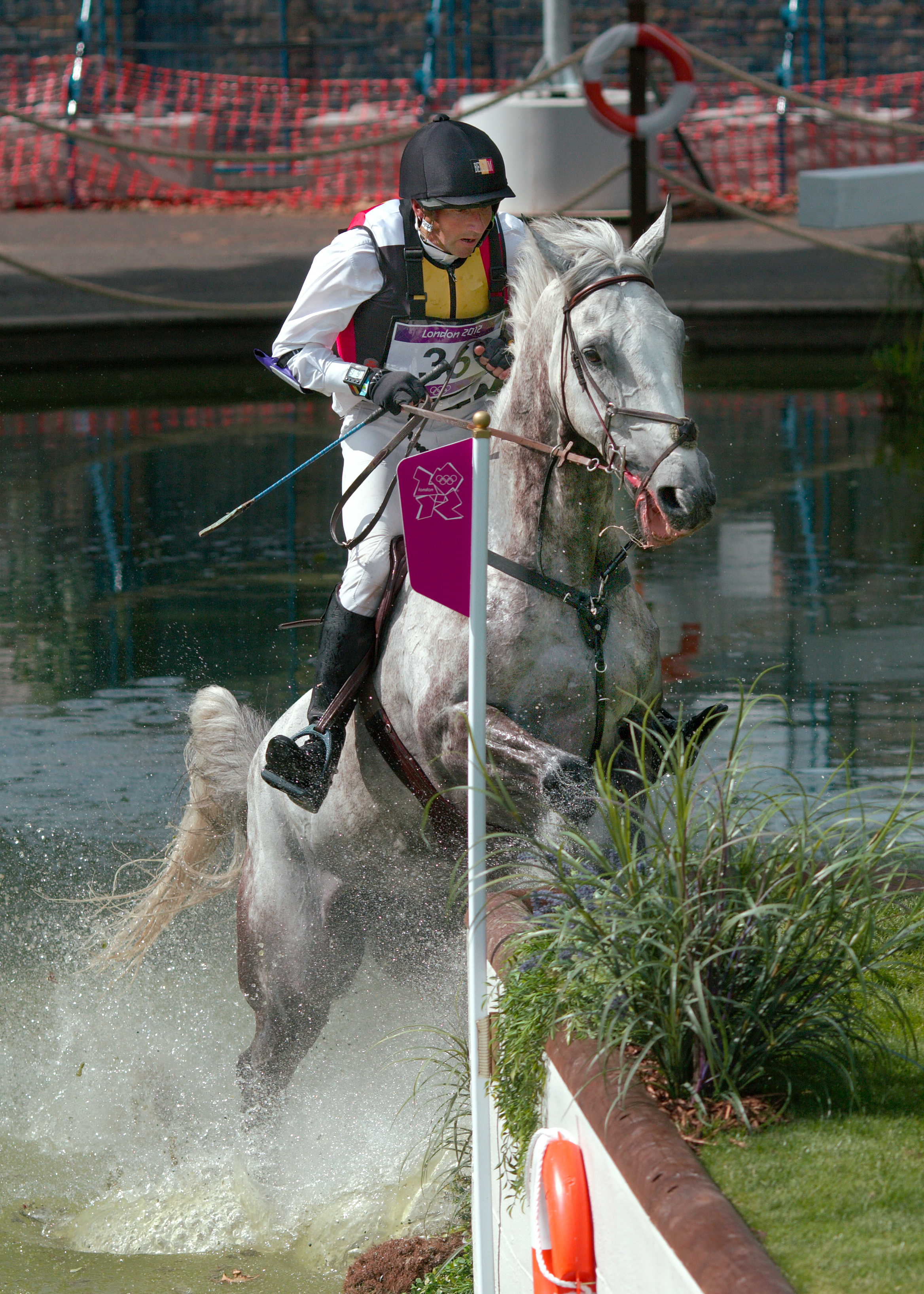 Marc Rigouts and Dunkas, competing for BEL, at fence 18, during the cross-country phase of the Eventing during the 2012 Olympic Games in Greenwich Park, London.